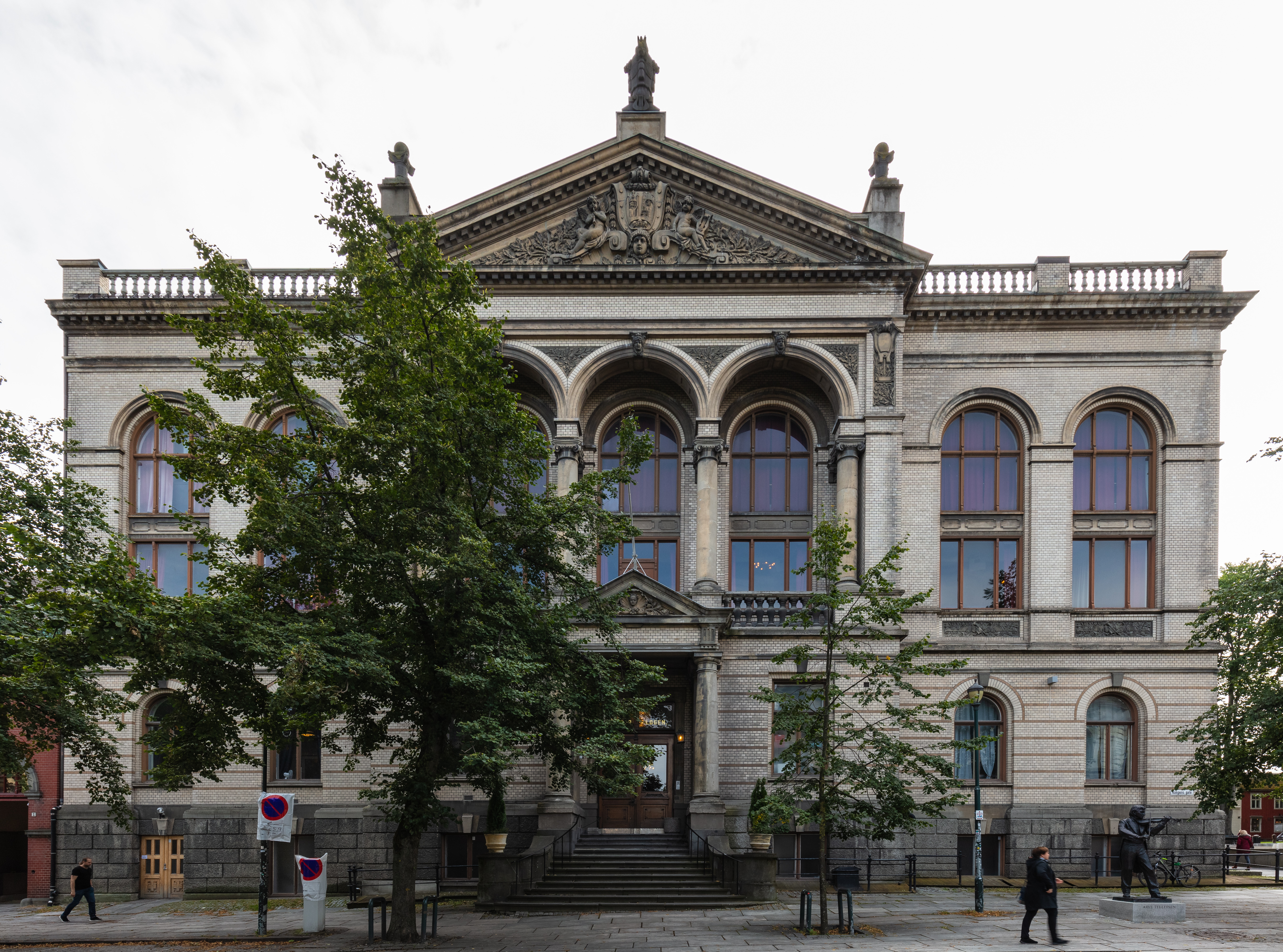 Frimurerlogen, Trondheim, Norway